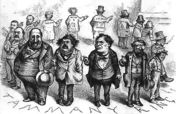 Boss Tweed and the Tammany Ring, caricatured by Thomas Nast.